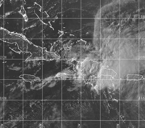 Hurricane Debby (2000) interacting with the mountains of Hispaniola. 08/23/00 2300z 07l debby 08//23/00 2242z trmm overpass 08/23/00 2145z goes-8 vis